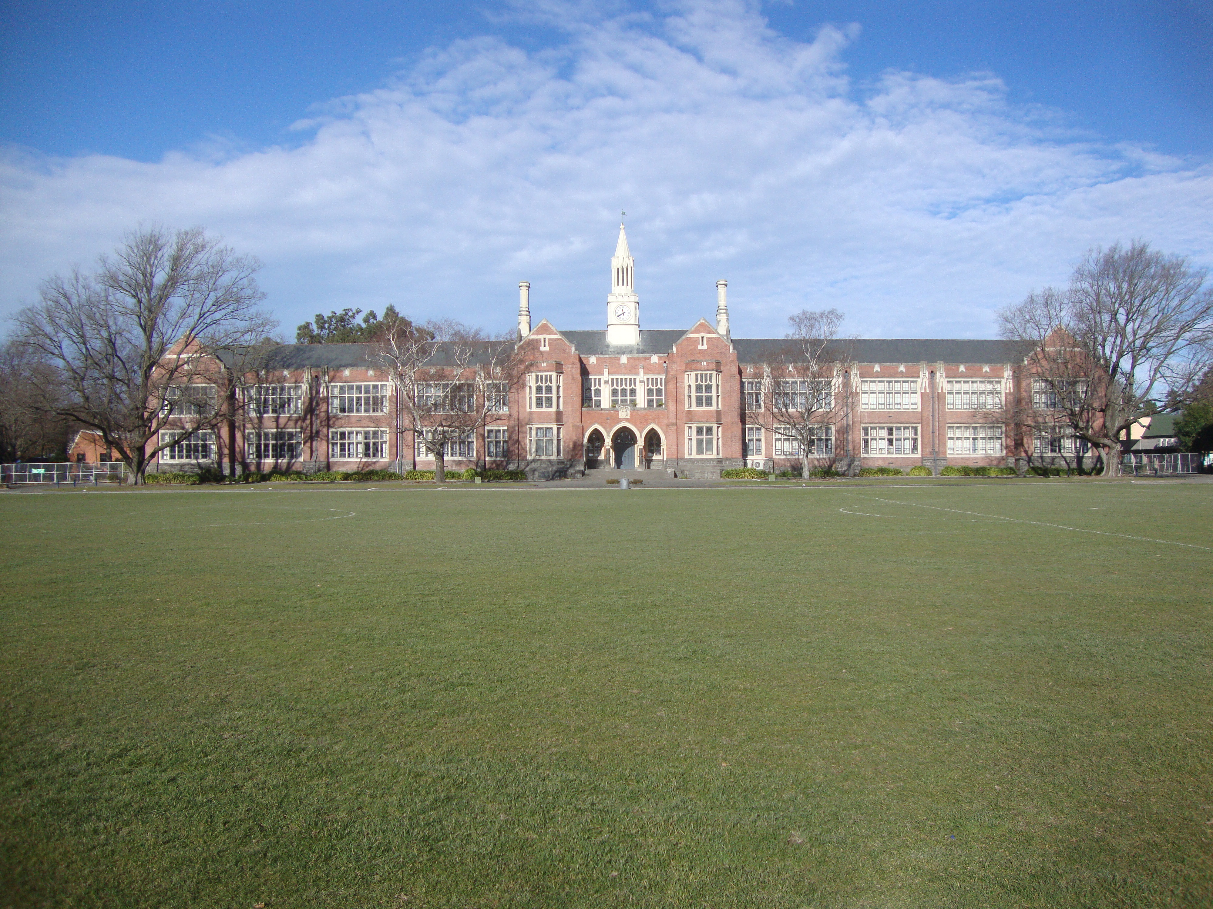 Christchurch Boys' High School in July 2012.